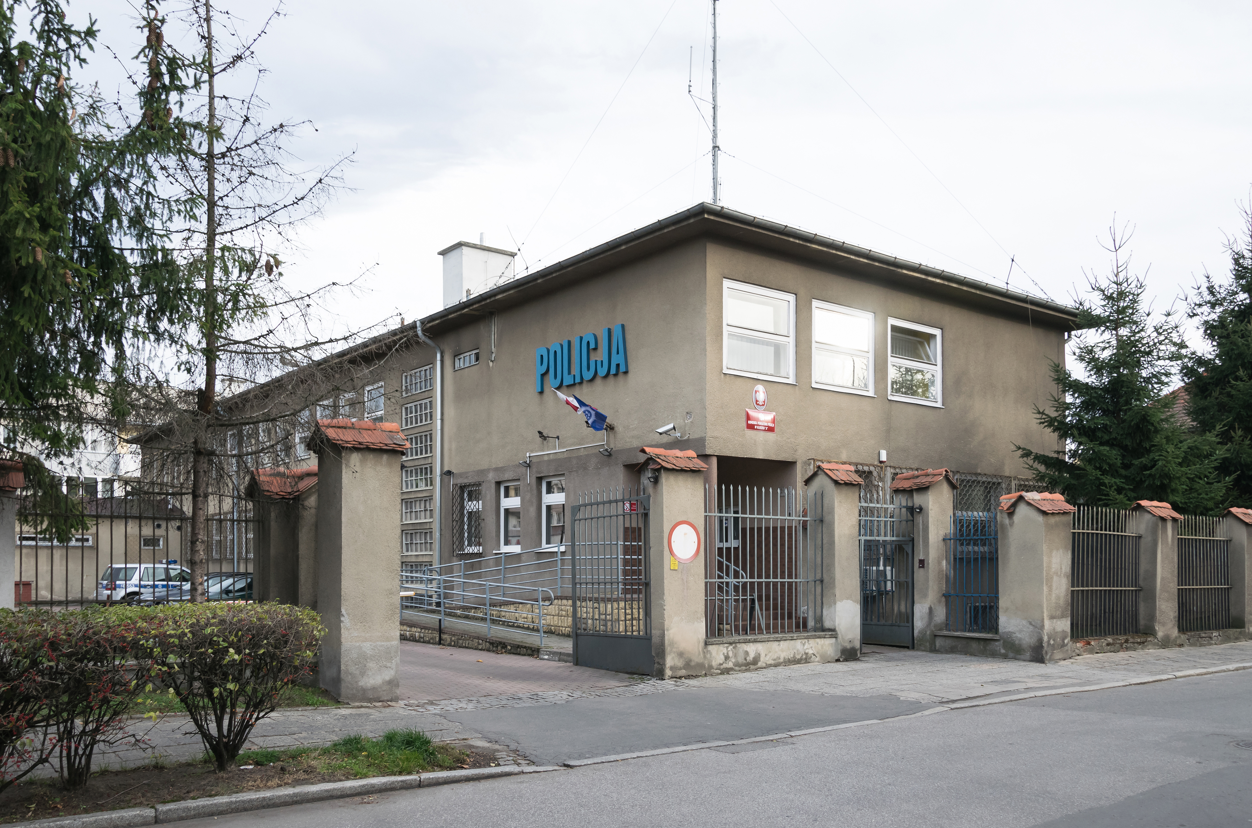 Police Station in Kłodzko